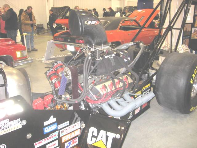 Engine of Caterpillar-sponsored dragster, at local car show